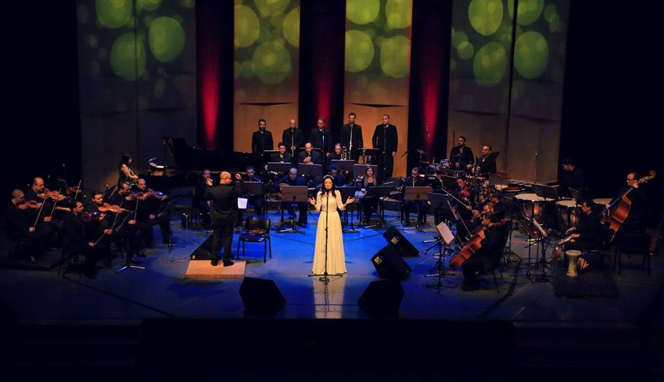 ميس حرب في حفل اطلاق ألبومها الأول "خيطان الشمس" على مسرح دار الأوبرا في دمشق